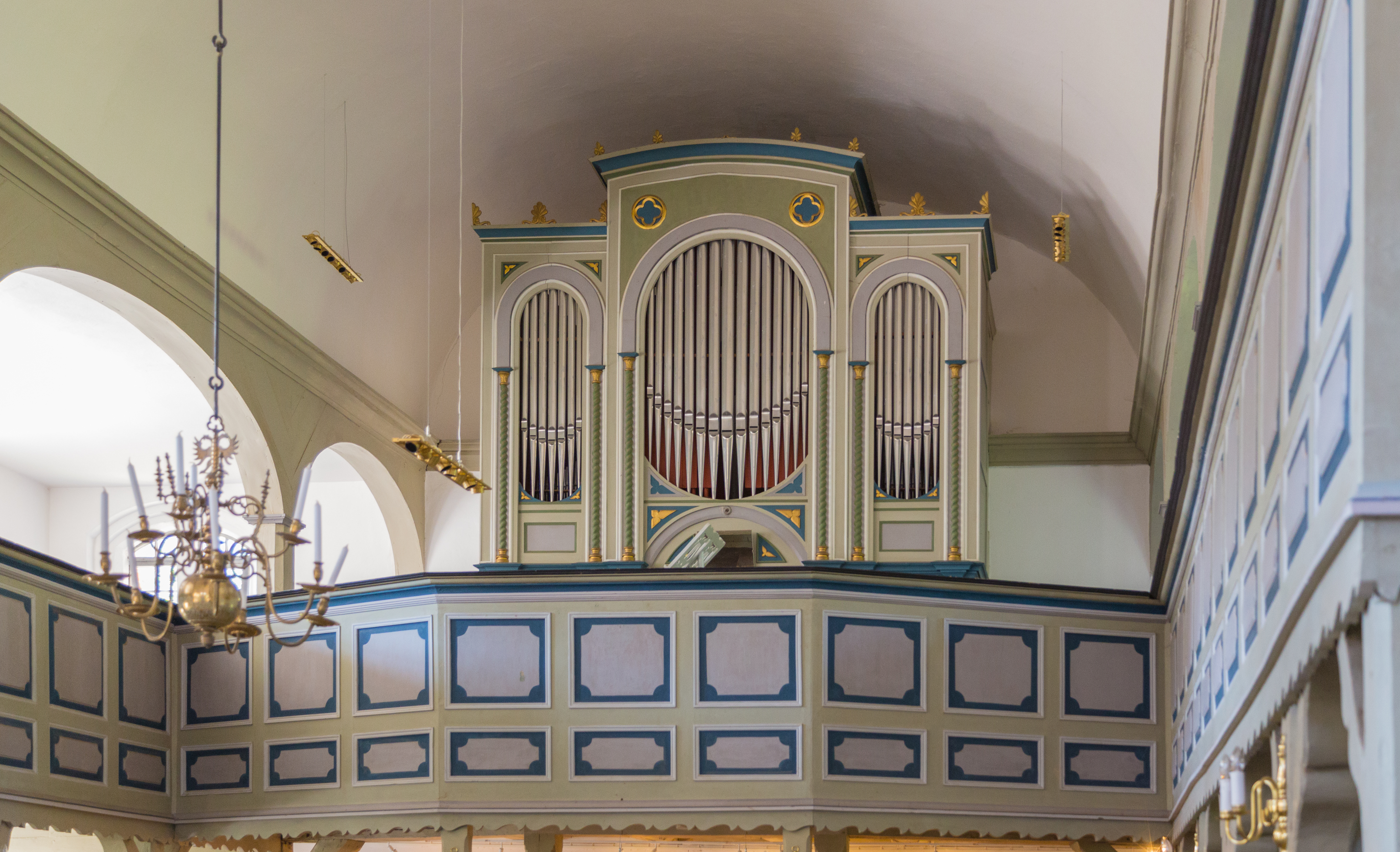 Pipe organ of the Protestant Seamen's Church (Seemannskirche) in Prerow, Landkreis Vorpommern-Rügen, Mecklenburg-Vorpommern, Germany.